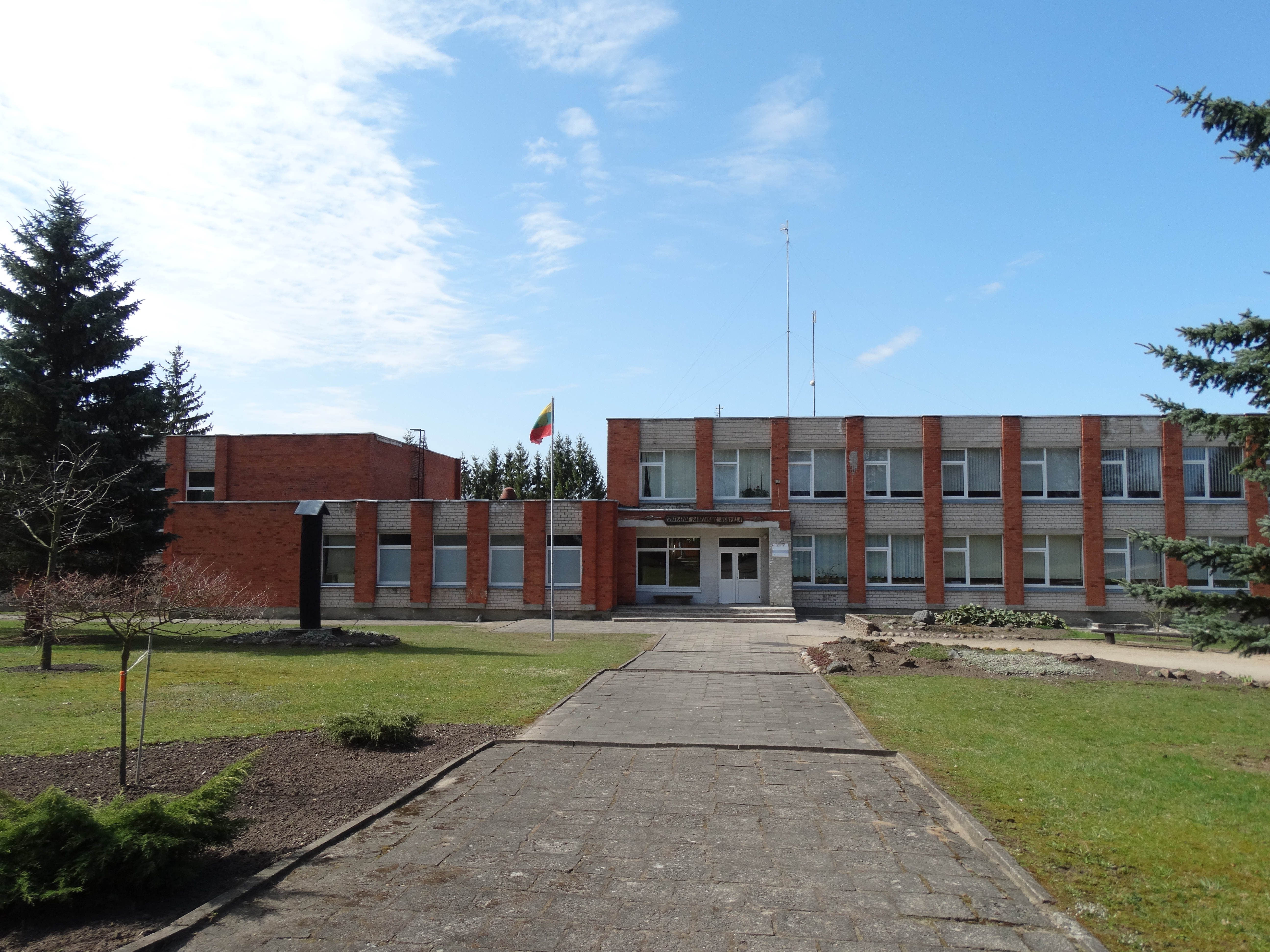 School, Pavermenys, Kėdainiai District, Lithuania